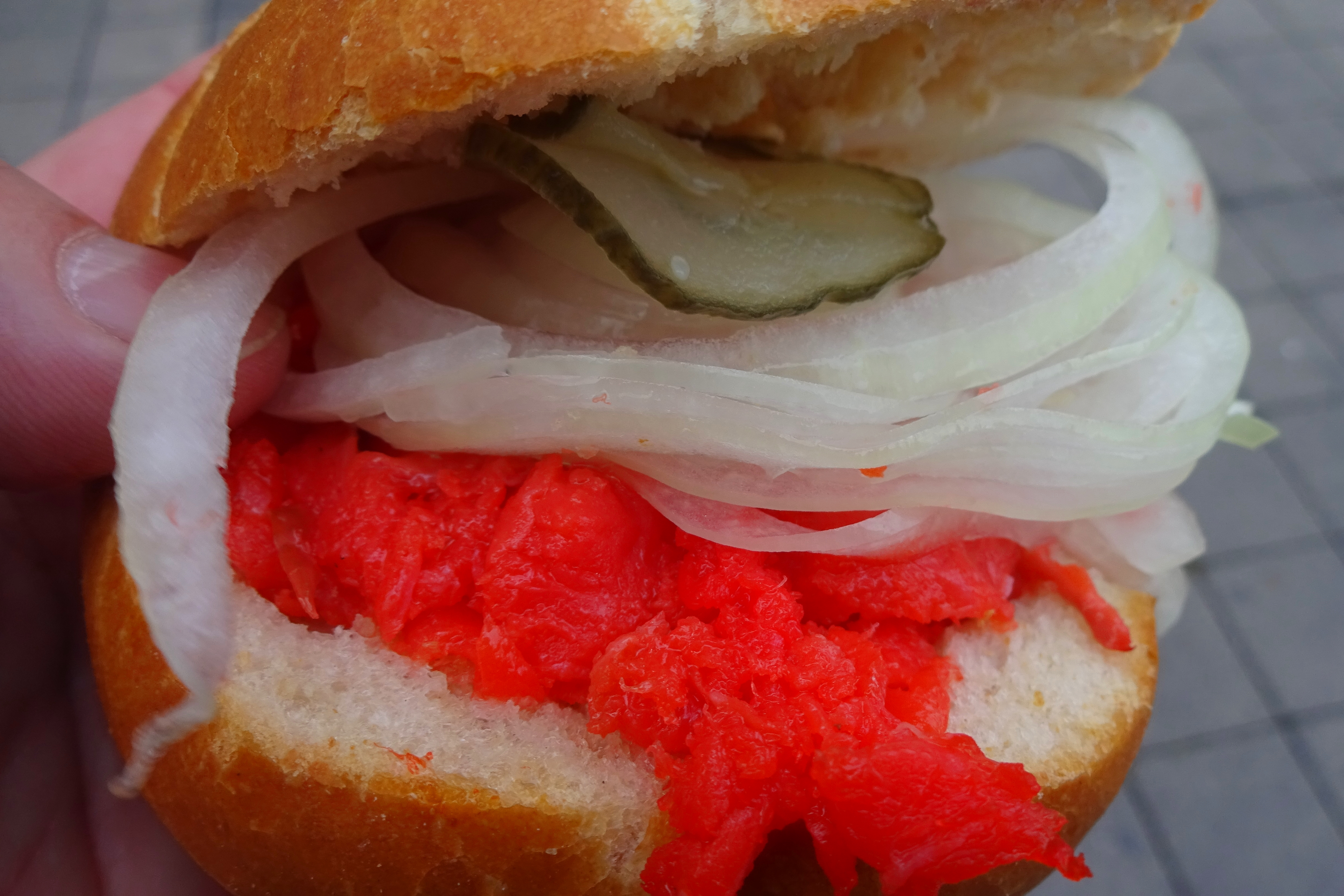 Roll with salmon substitute, onion rings and pickled cucumber. Photographed and eaten on the autumn market in Kulmbach.